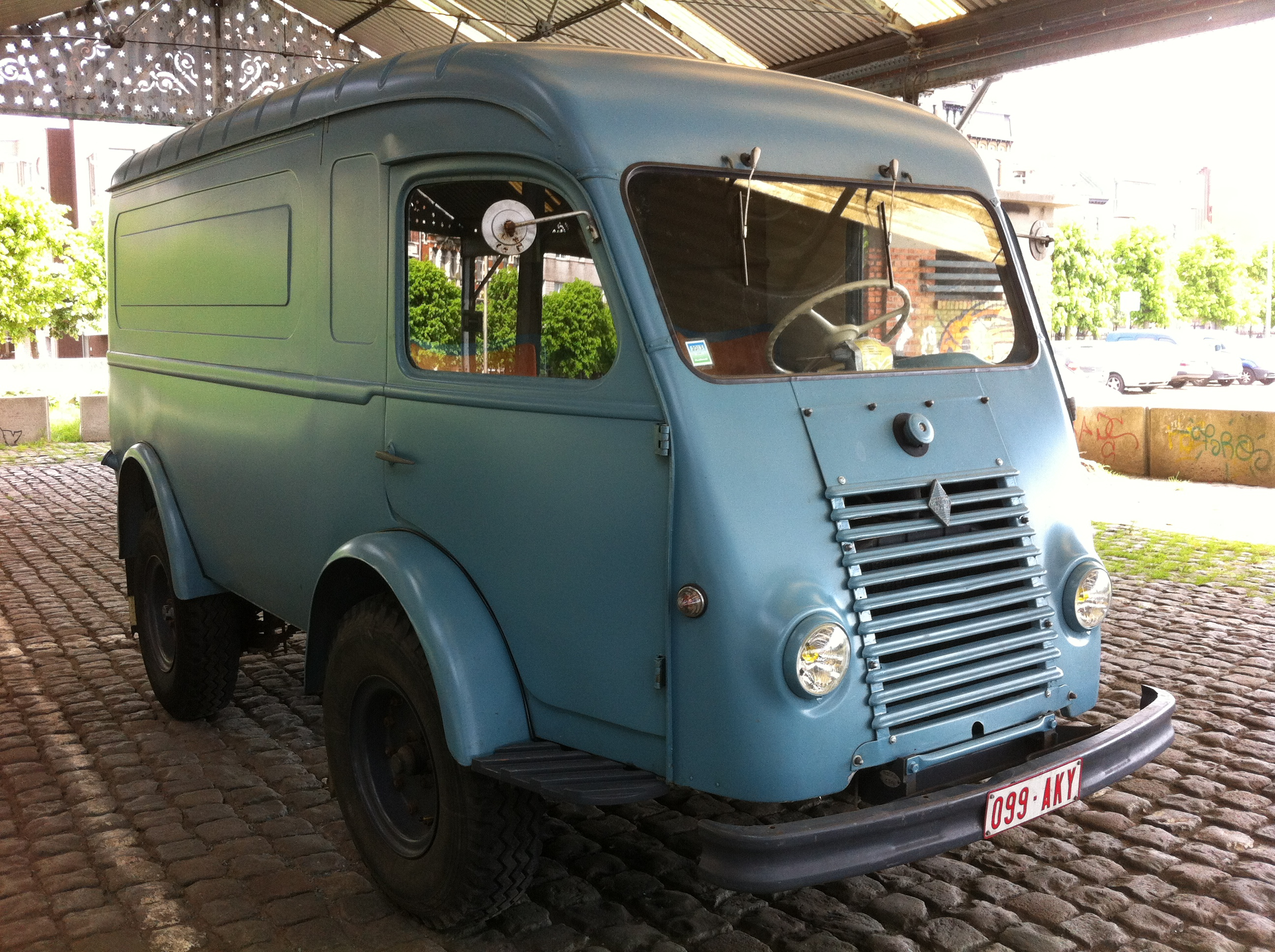 Renault 1 000 kg van finished in blue. Picture taken in Belgium.